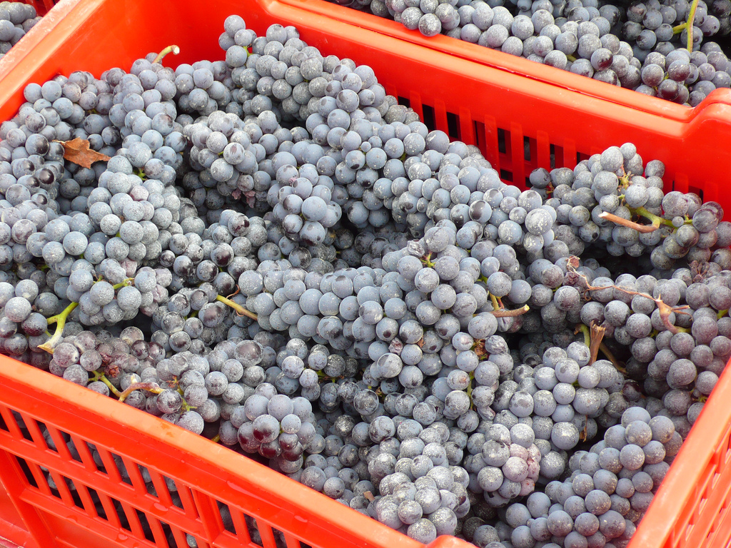 From author: "Small basket, 25 kilos, best for hand harvesting and overall quality."